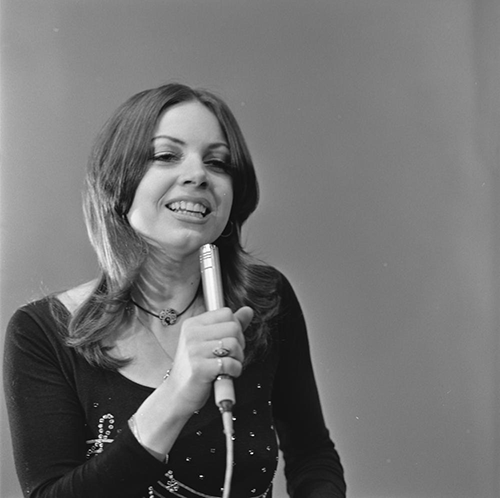 Jerney Kaagman (Earth & Fire) in AVRO's TopPop (Dutch television show) in 1973